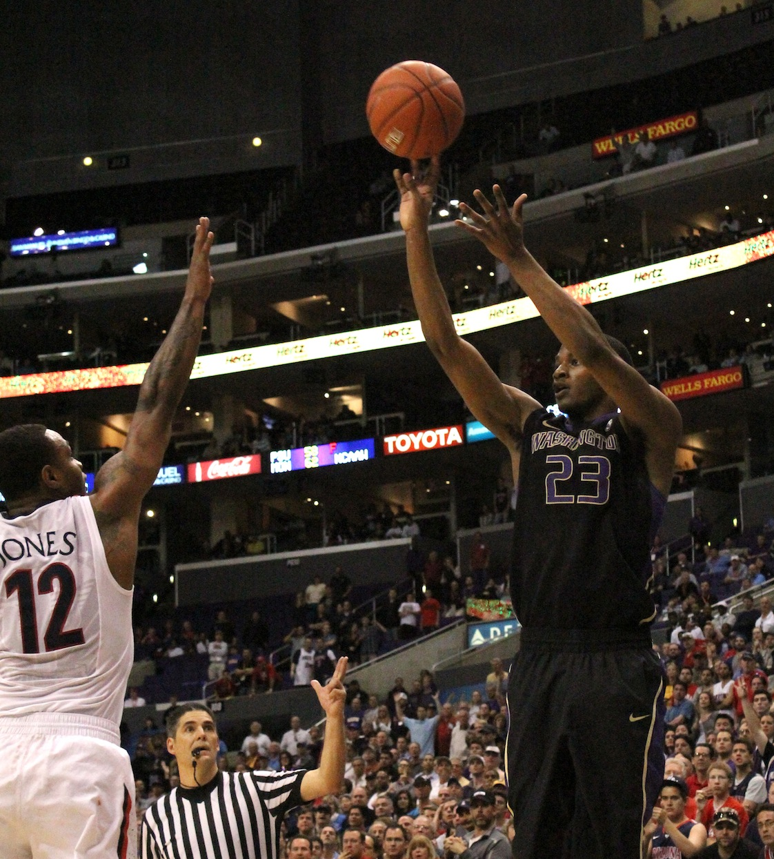 C.J. Wilcox ties the game from the corner. (Shotgun Spratling/Neon Tommy)